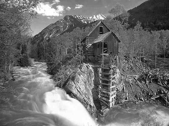 Crystal Mill